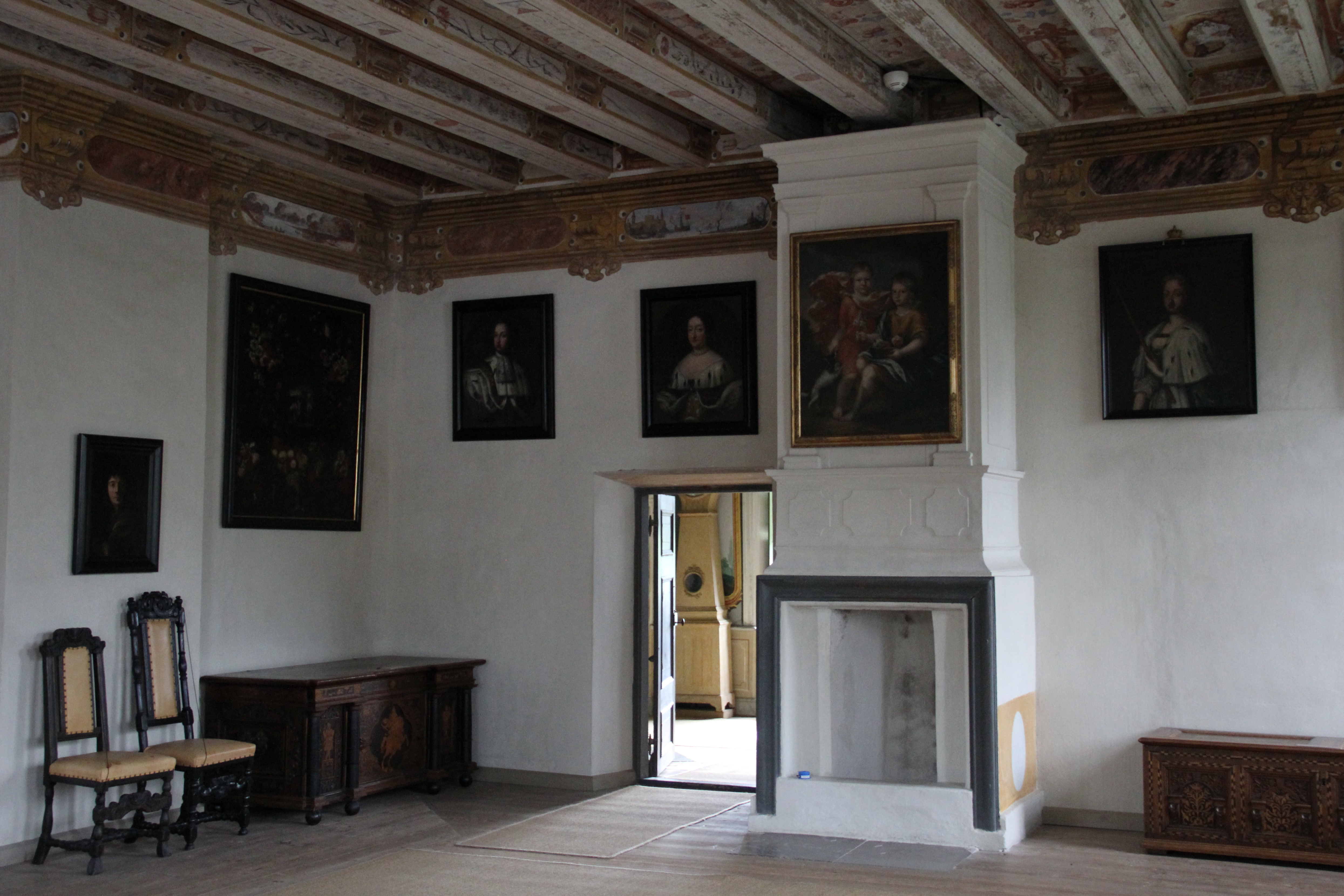 Louhisaari manor, Askainen, Masku, Finland. - Great hall.